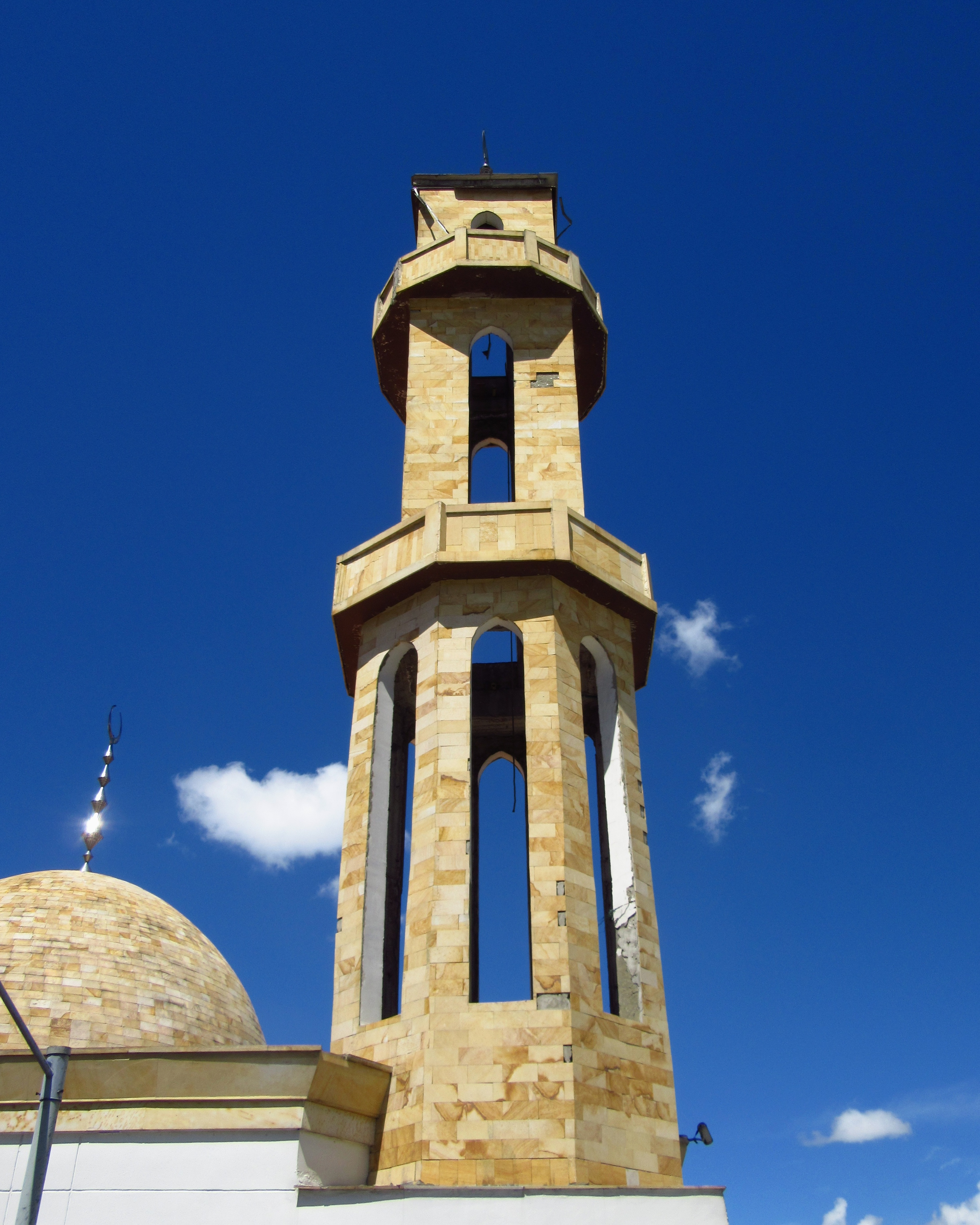 Bogotá